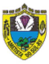 Coat of arms of the city of Ametista do Sul, Rio Grande do Sul, Brazil.